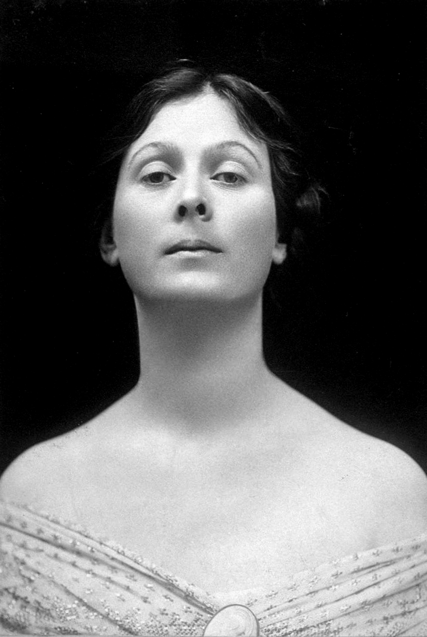 Portrait of Isadora Duncan.